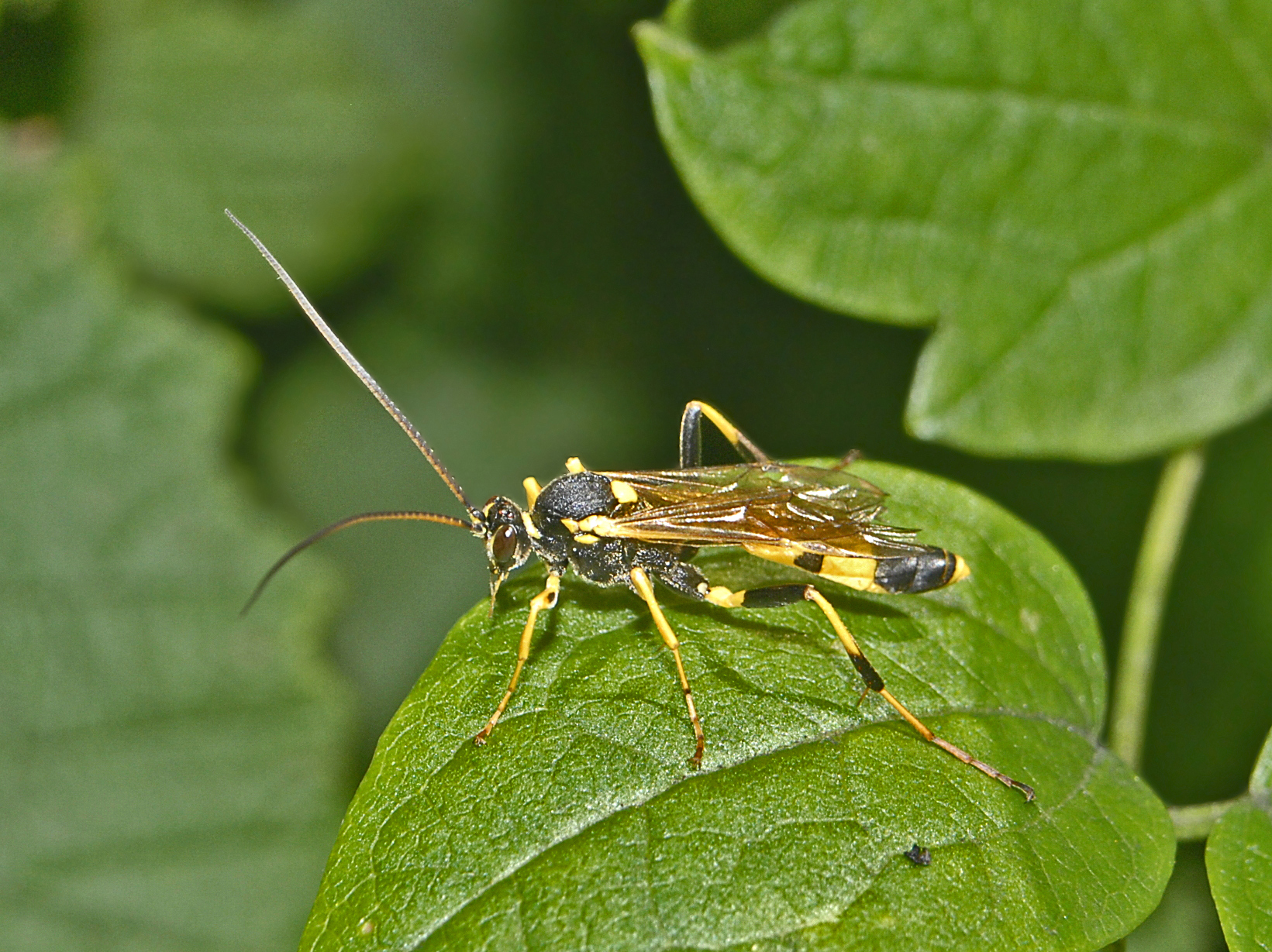 Amblyteles armatorius. Male. Lateral view. Passo del Faiallo, Genova, Italy